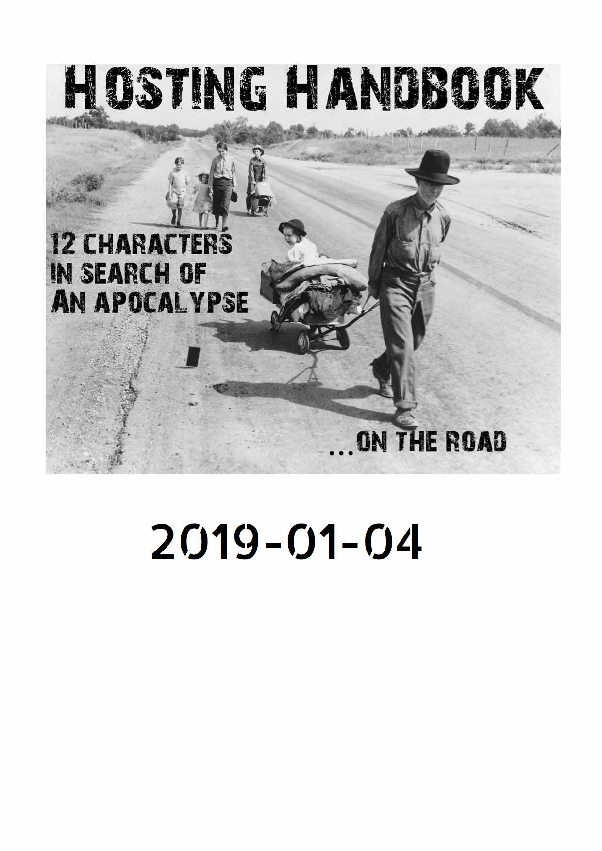 Cover of the Hosting Handbook created for the project - 12 Characters in Search of an Apocalypse... On the Road